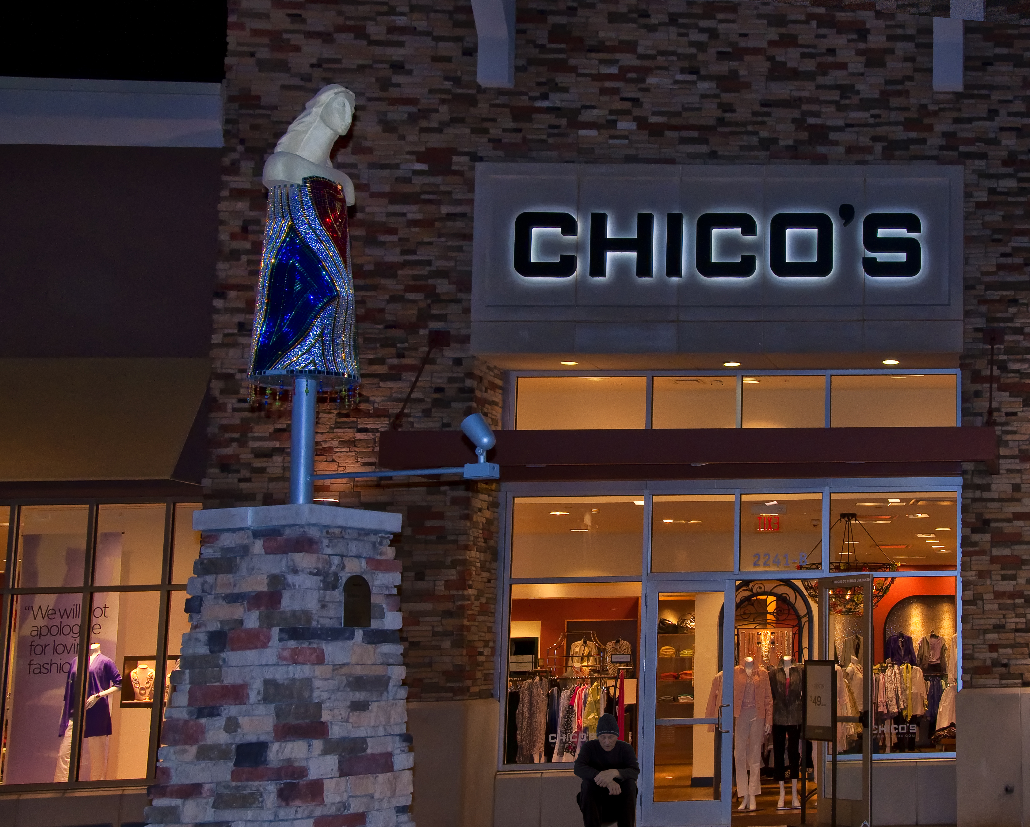 Another shot I took at ABQ Uptown the other night.